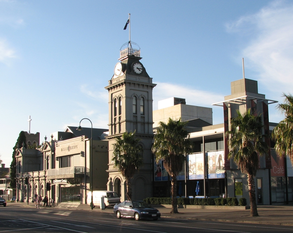 Clocktower Centre in Moonee Ponds (suburb of Melbourne), Victoria, Australia.